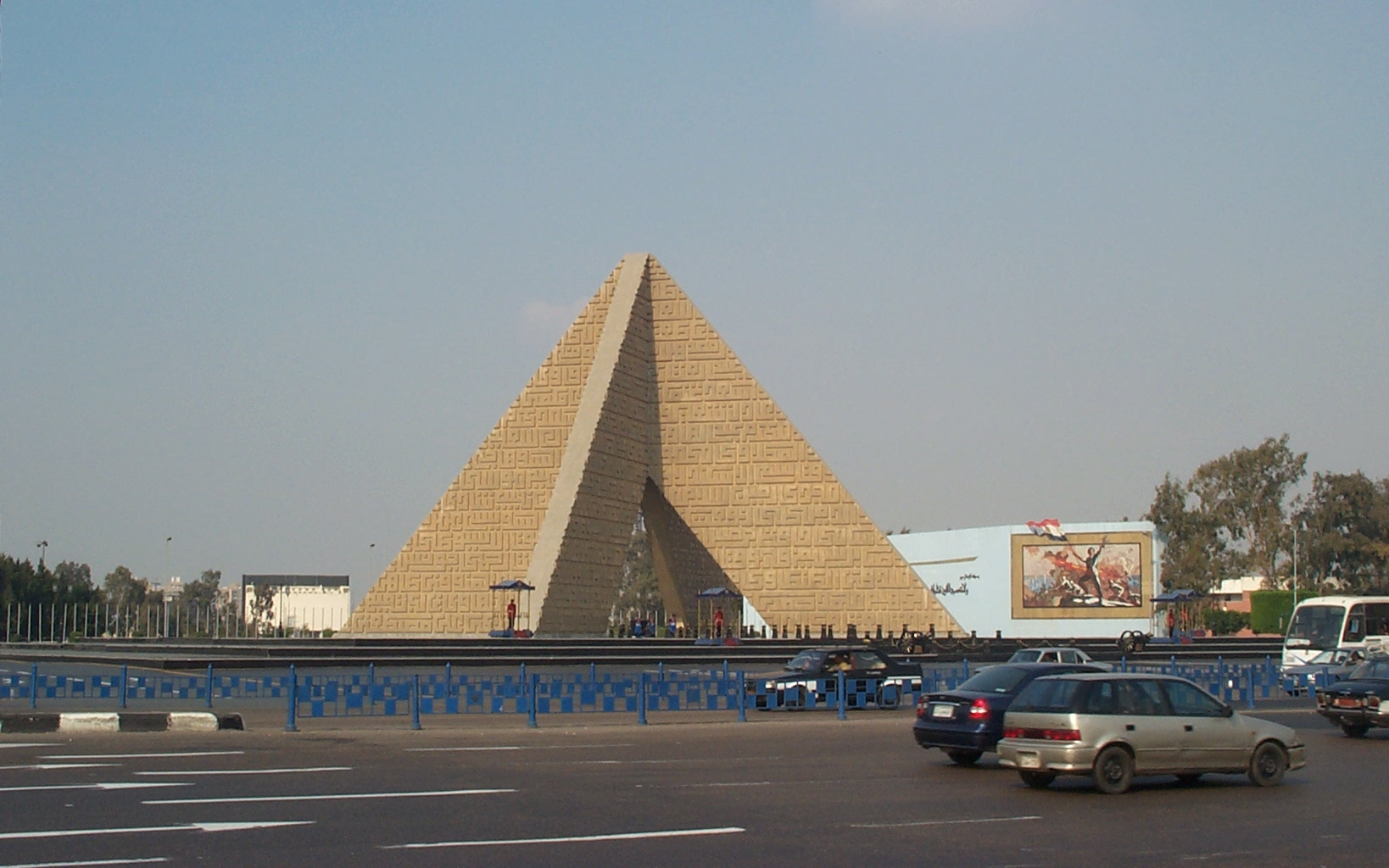 Tomb of the unknown Soldier, and Tomb of Anwar as-Sadat, on the Autostrade freeway, Nasr City, Cairo, Egypt. Shot by Estr4ng3d, November 2006.